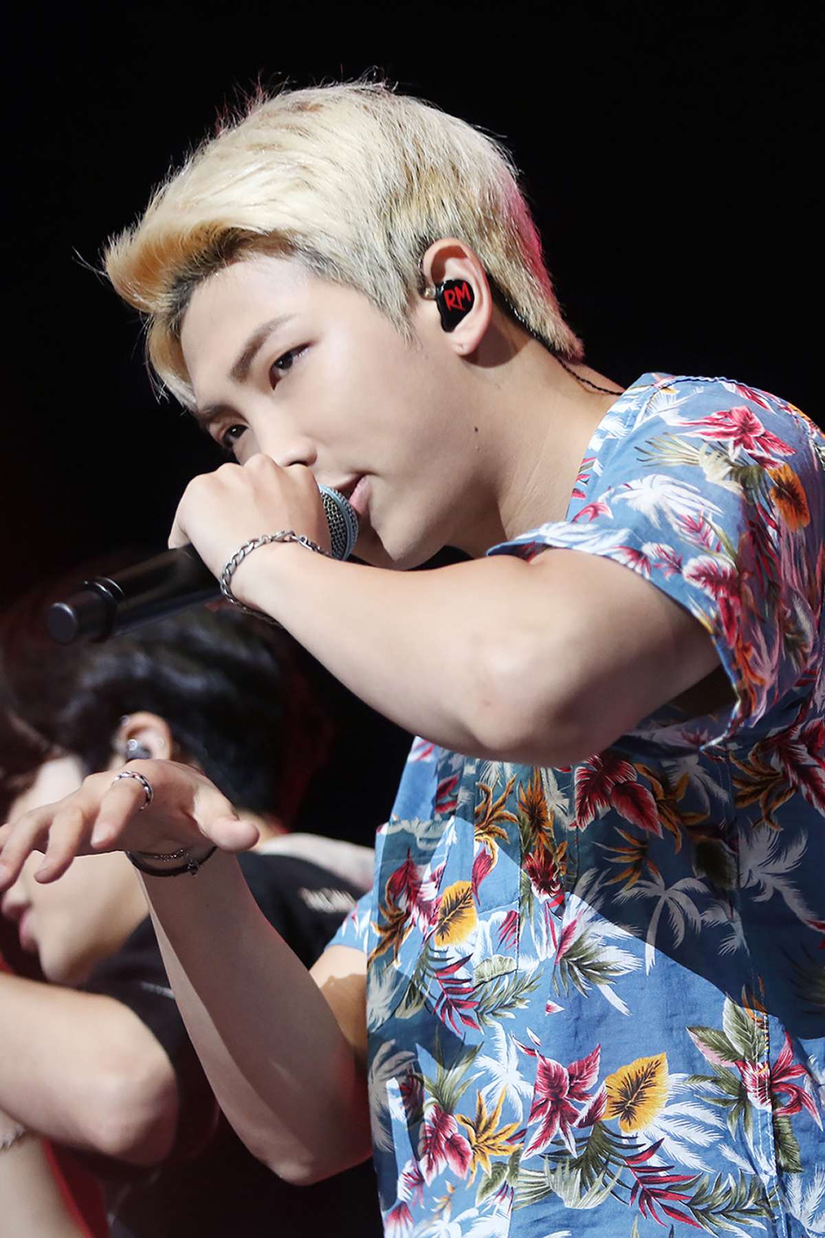 Rap Monster at the KCON in Los Angeles, on July 31, 2016.